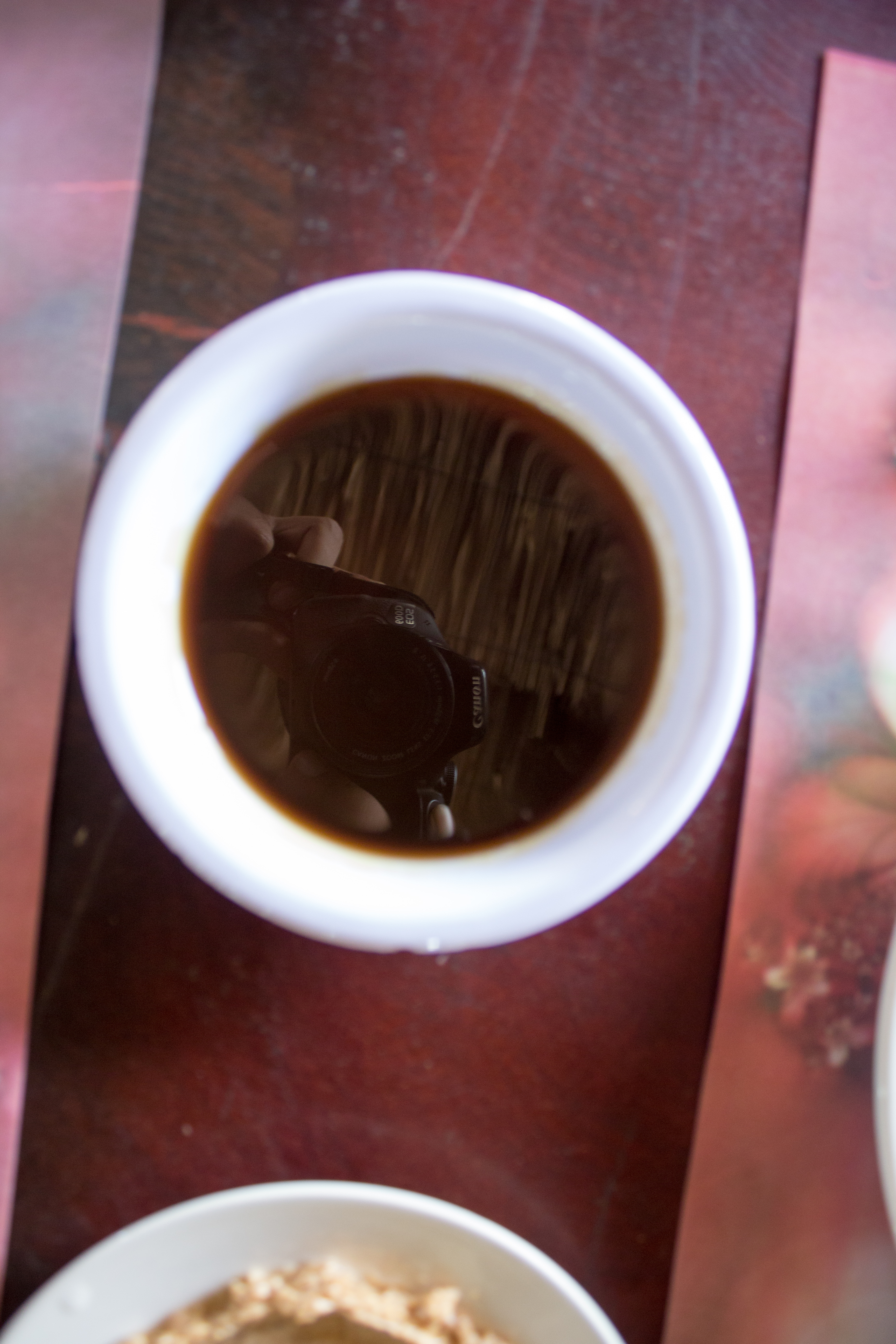 عسل أسود